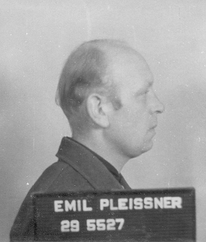 Emil Paul Pleissner was SS-Hauptscharführer and Charge of crematory in the concentration camp of Buchenwald. In the Buchenwald Camp Trial (part of the Dachau Trials) he was sentenced to death by hanging.